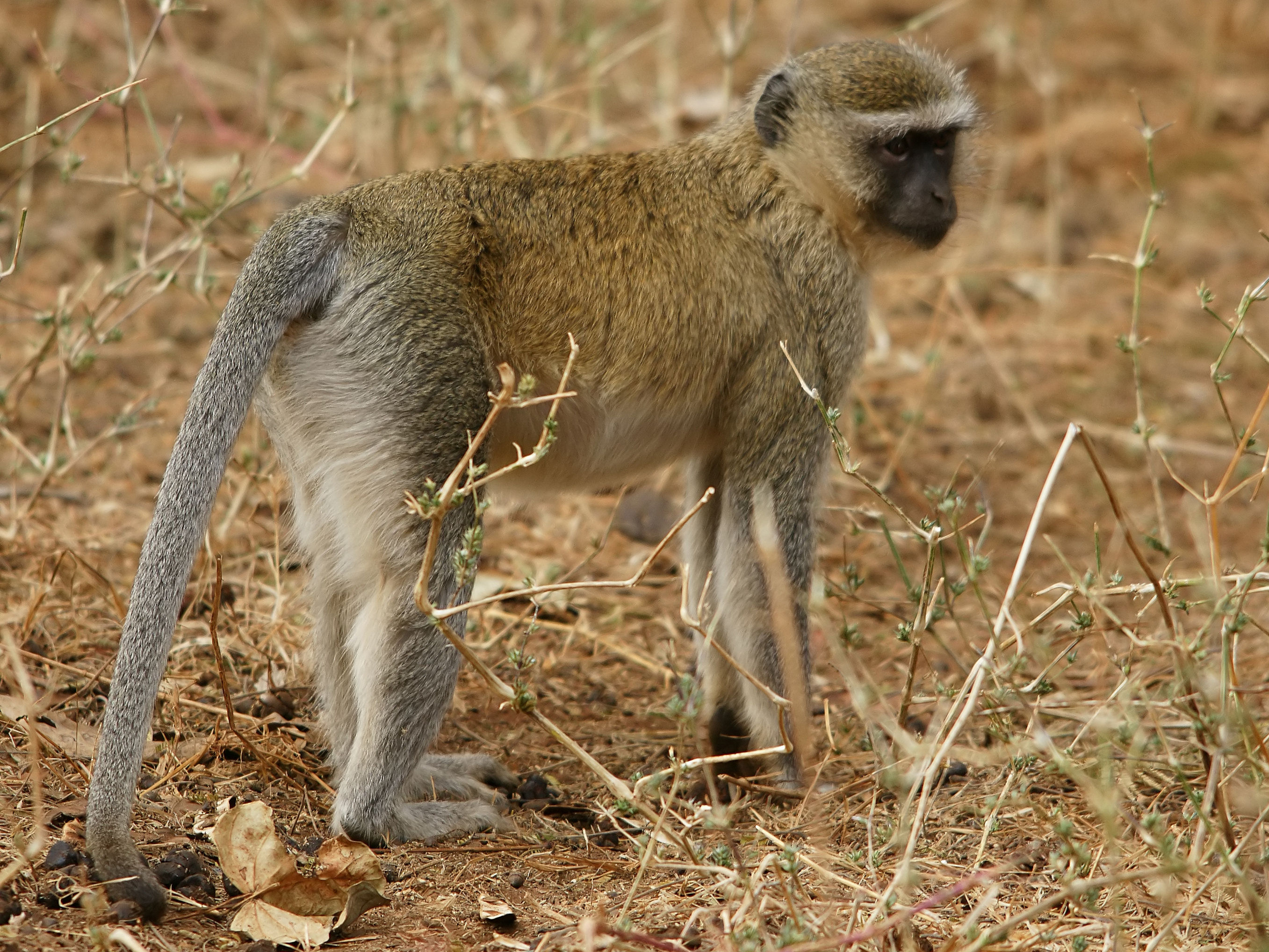 Malbrouck Monkey close to Chilanga near Lusaka, Zambia